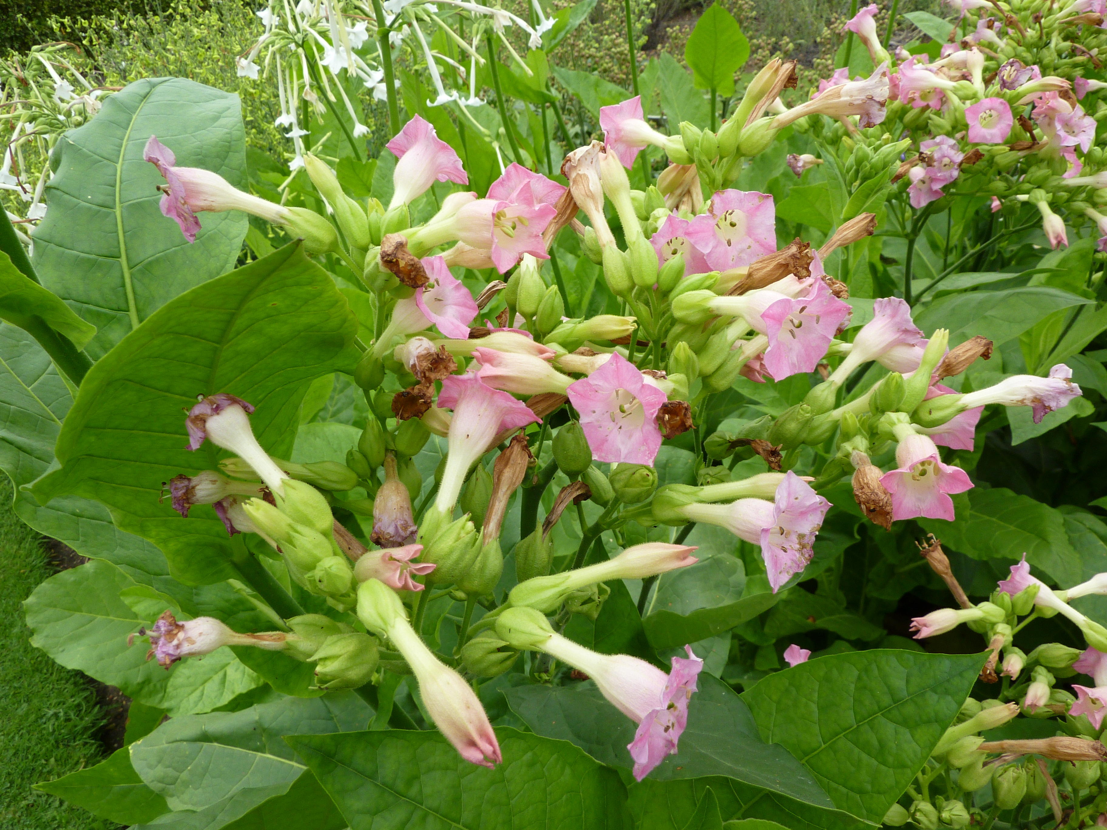 Nicotiana tabacum, Cambridge University Botanic Garden